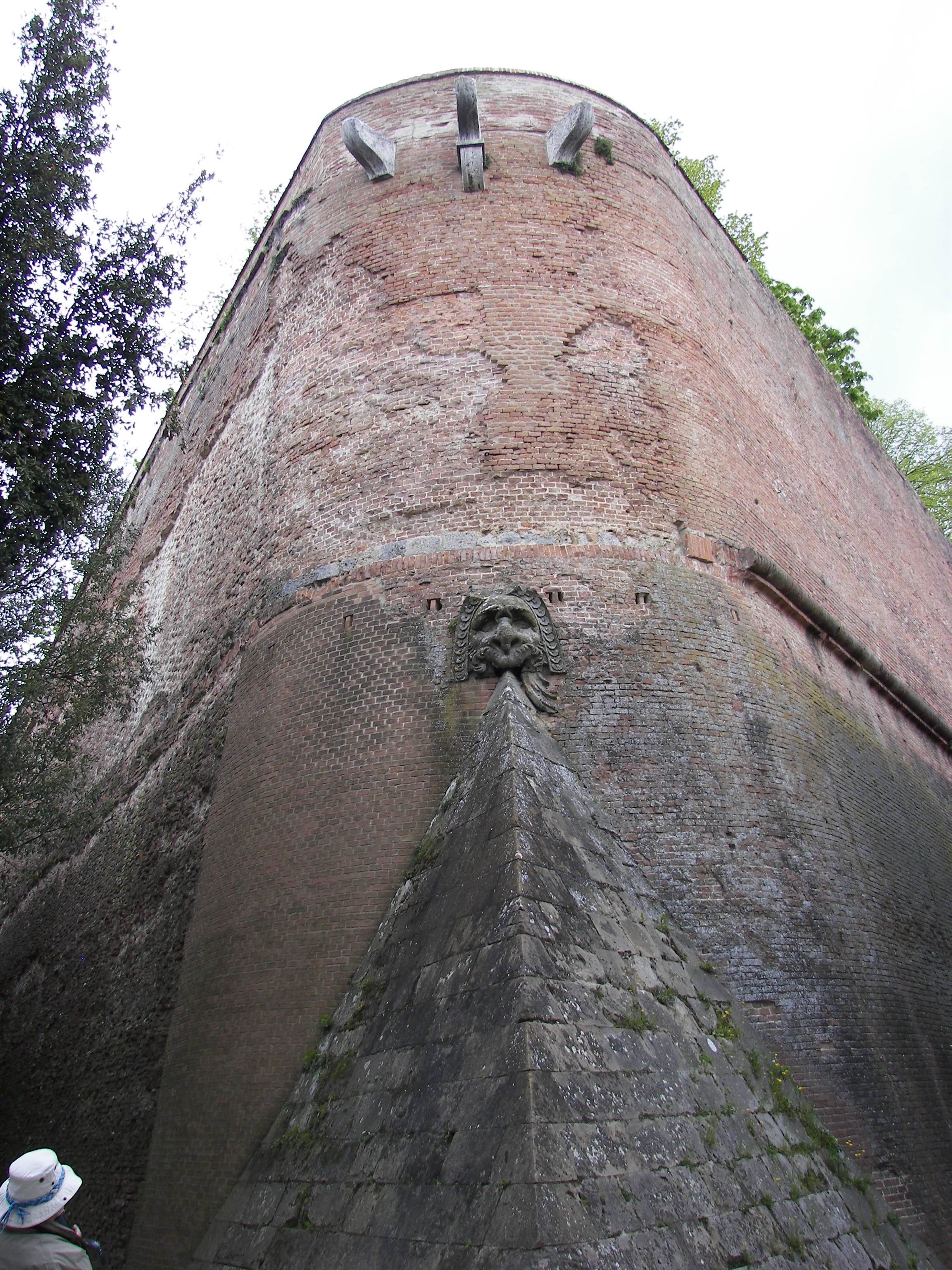 Section of the city walls of Siena, Italy.